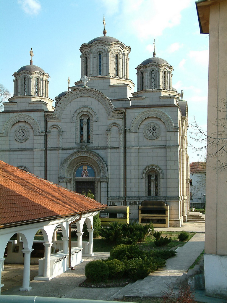 Crkva Svete Trojice u Leskovcu